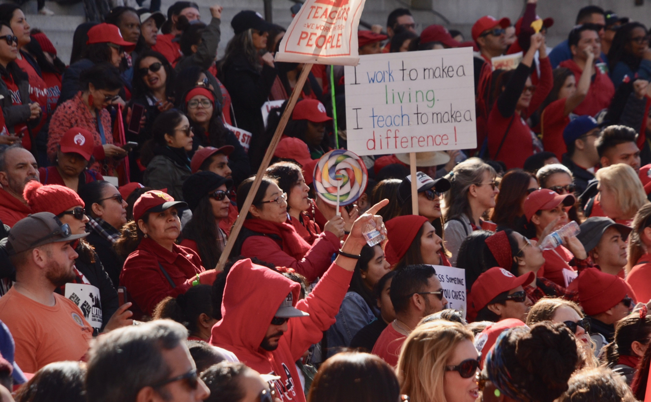 Jan. 22, 2019. UTLA teachers rally downtown to celebrate the end of the strike. Photo credit: Mike Chickey